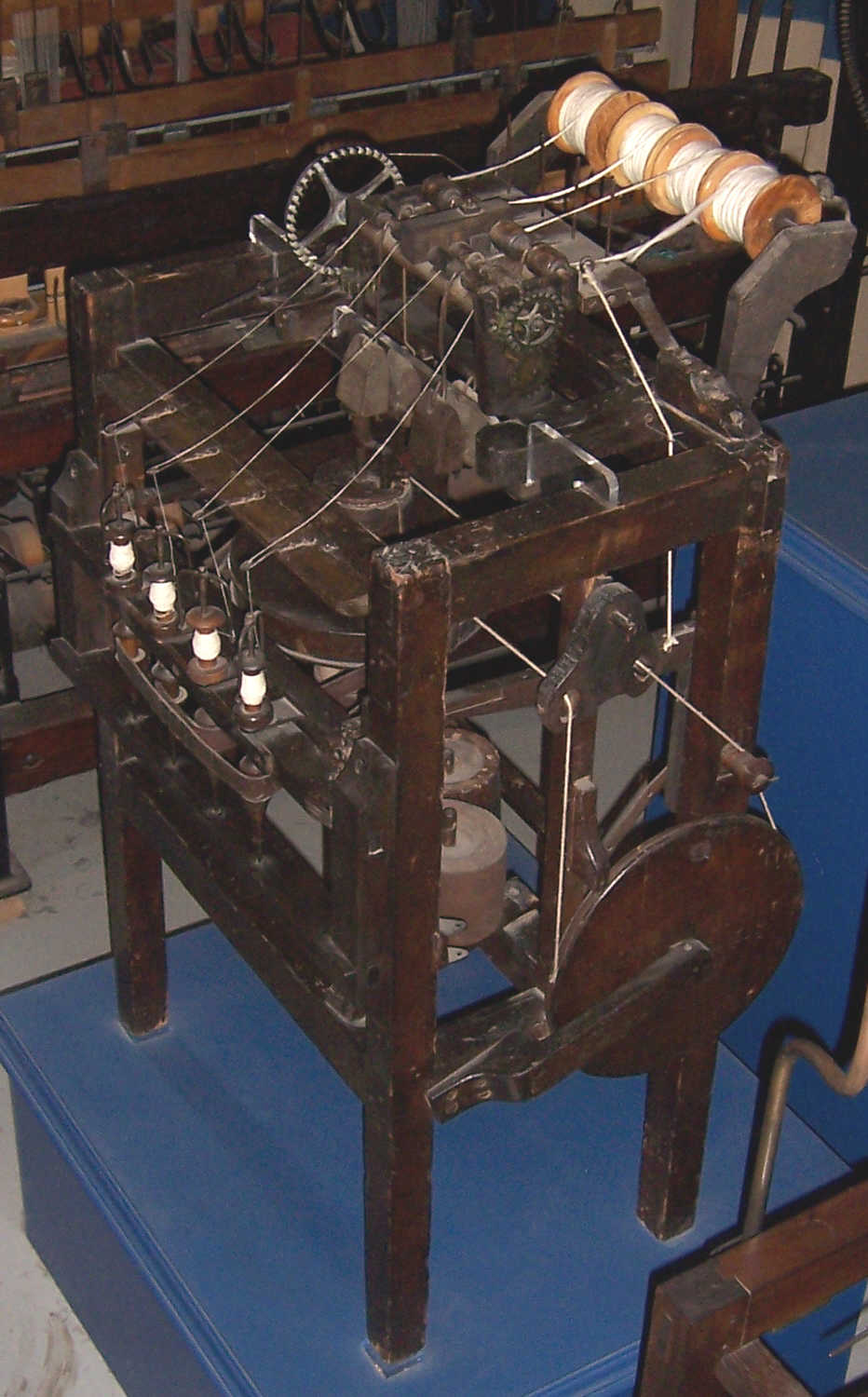 An example of Arkwright's water frame that was made in 1775 and acquired by the Manchester Museum of Science and Technology in 2006 with the assistance of the Heritage Lottery Fund and Prism Fund.